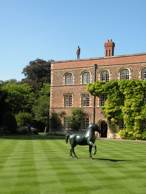 My Kingdom for a Horse!